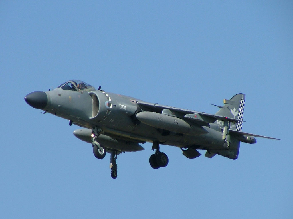 A British Royal Navy BAe Sea Harrier FA.2 of 801 Naval Air Squadron at the 2005 Royal International Air Tattoo.